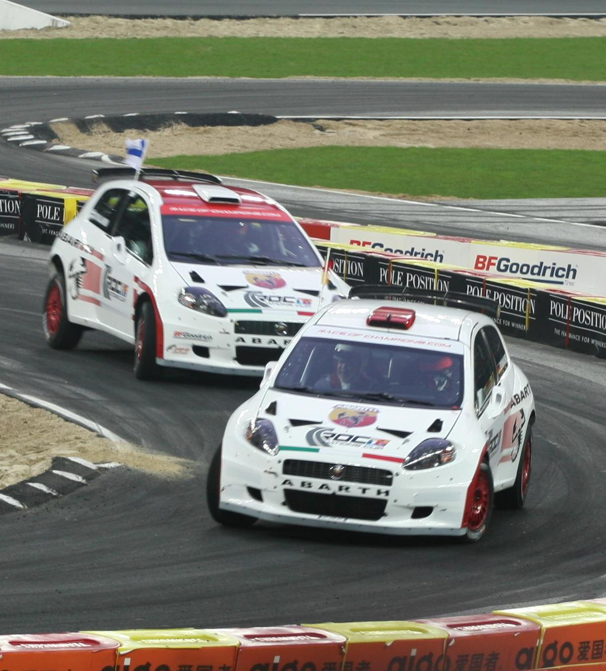 Heikki Kovalainen and Michael Schumacher driving Fiat Grande Punto S2000 Abarths at the 2007 Race of Champions at Wembley Stadium.